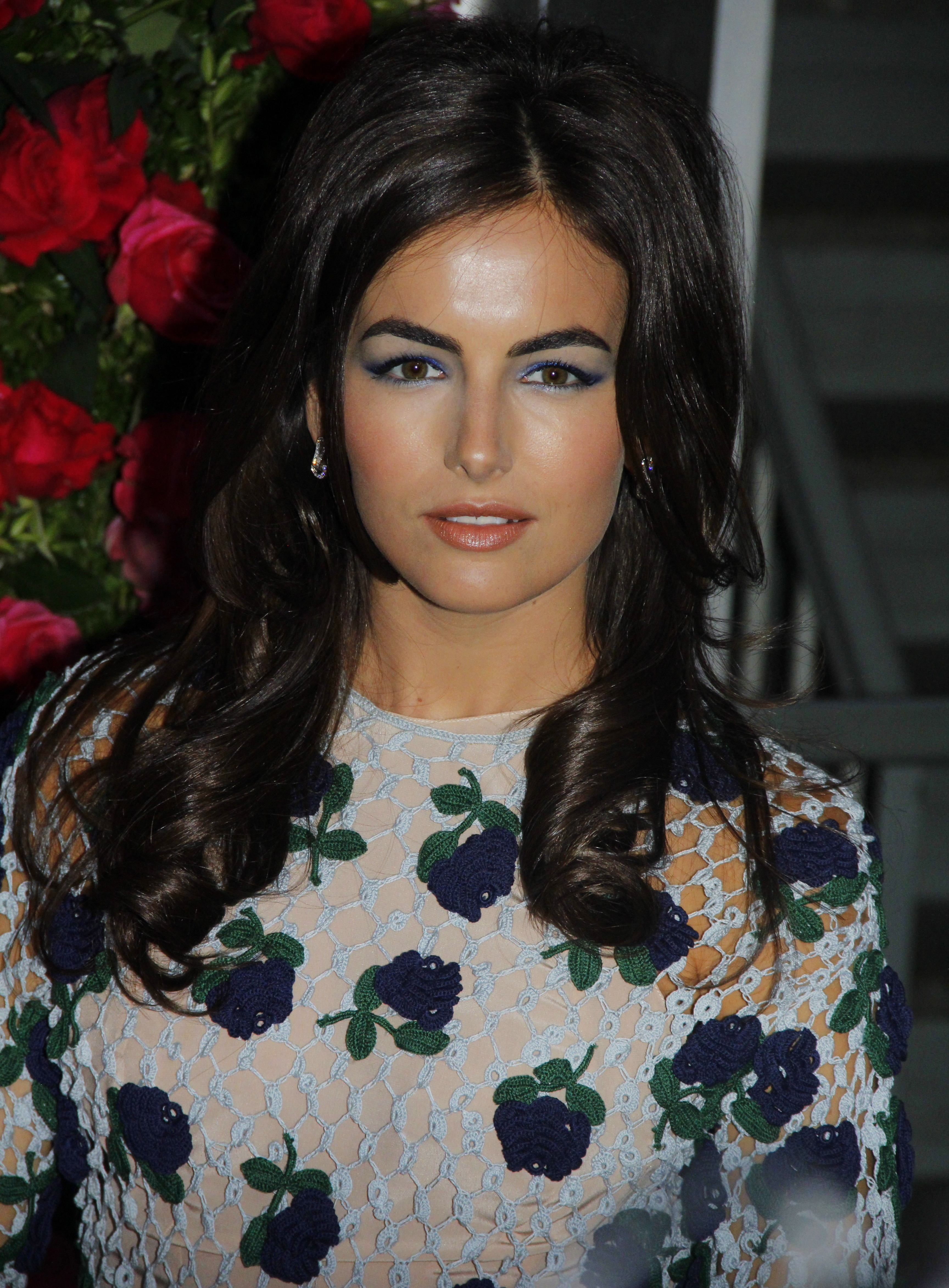 Camilla Belle in 2012